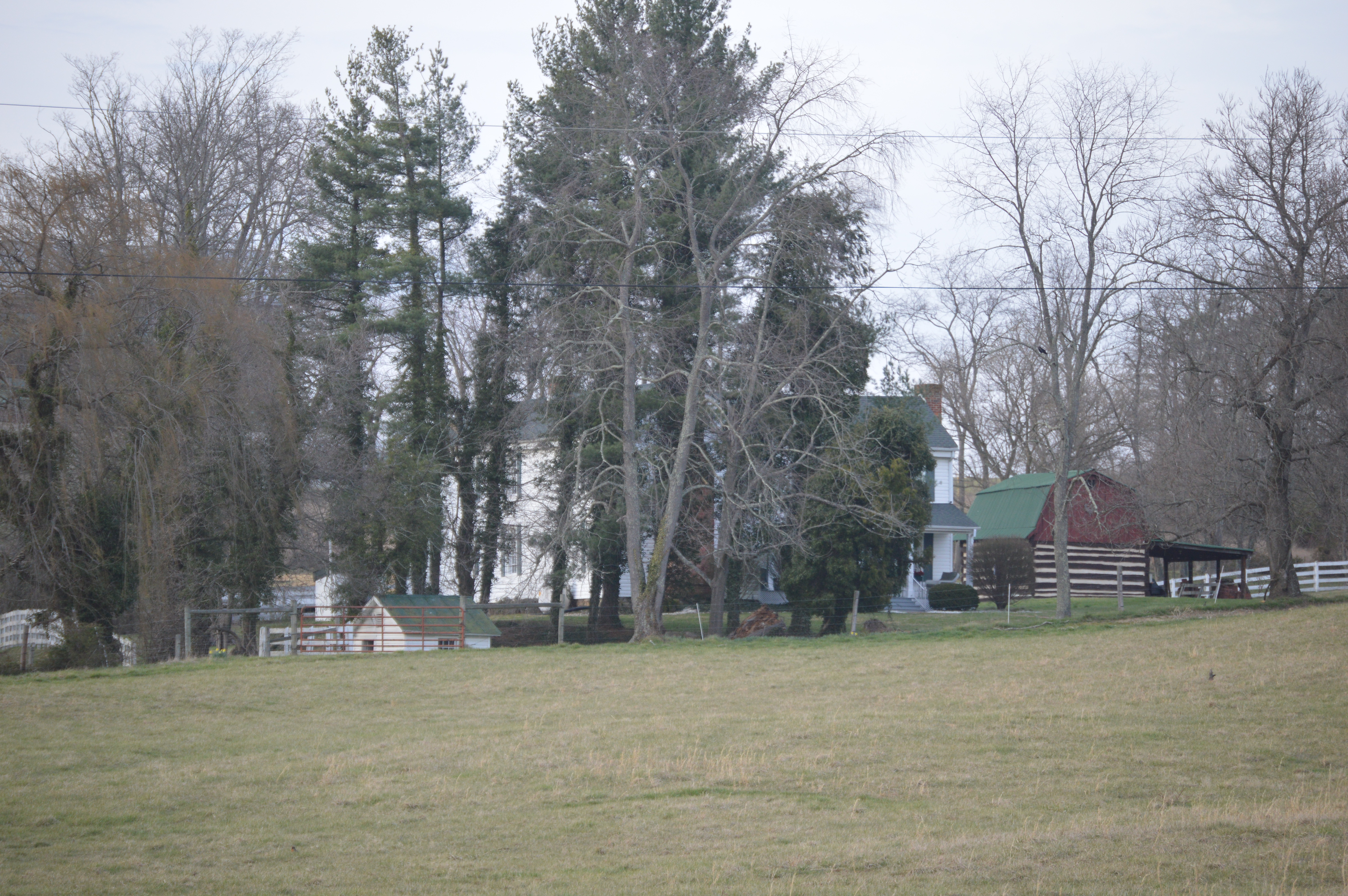 Southern side of the Linkous-Kipps House, located along Merrimac Road on the southwestern fringe (the house is in town limits, but the camera isn't) of Blacksburg, Virginia, United States. The house is listed on the National Register of Historic Places.